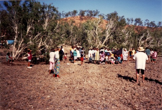 Photo taken of Djungan gathering in the Hodgkinson Riverbed, Kondoparinga Station 1991